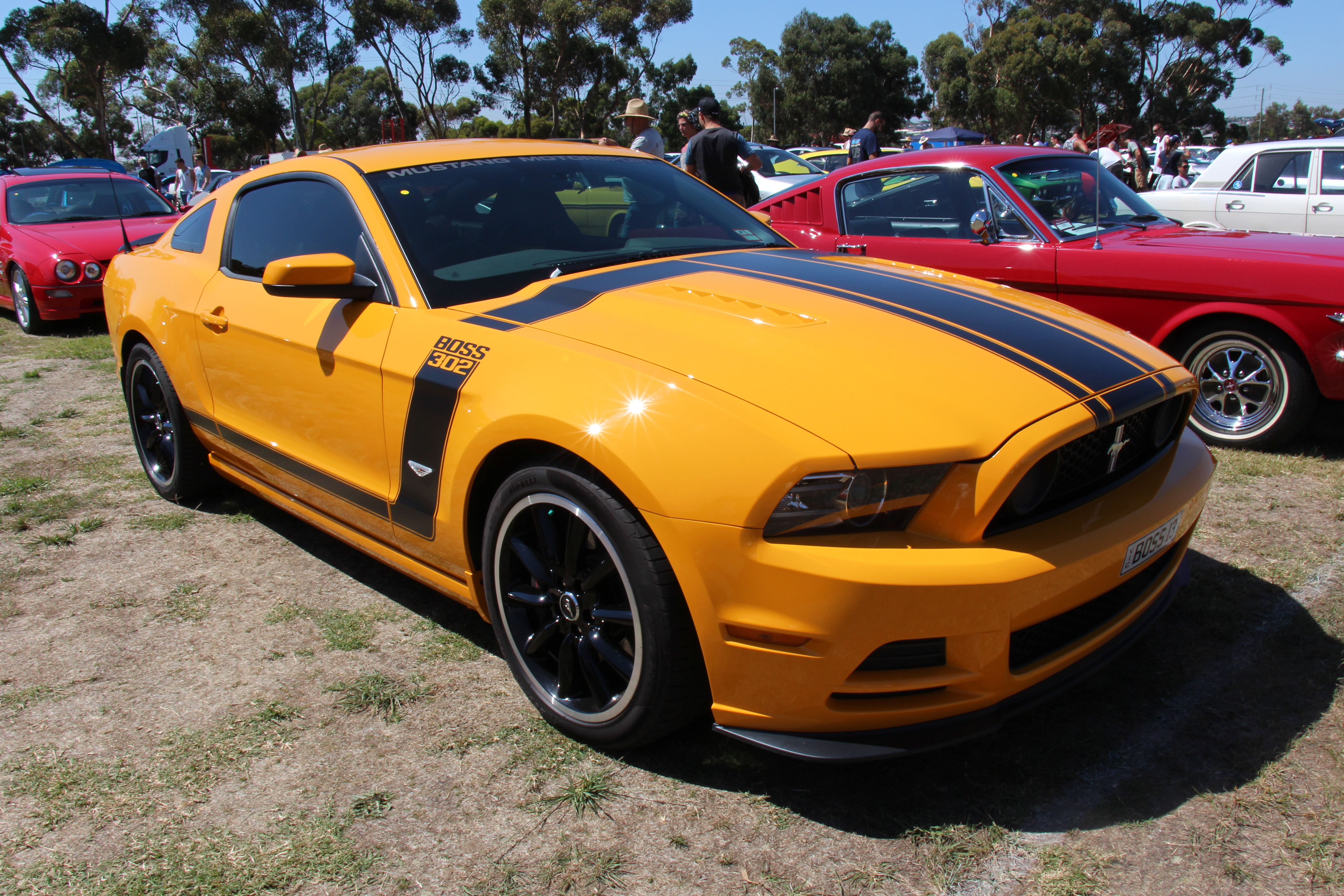 School Bus Yellow. The fifth generation began with the 2005 model year, and received a facelift in 2010 and again in 2013. The styling was influenced by the 1st generation Mustangs, headlights set back from the grille like the 67, 68 and the fastback roofline like the 65, 66. This 2013 facelift got a new front fascia featuring a larger grille, standard HID headlamps and two LED accent strips adjacent to the headlamp lens. The revised three-lens taillights with LEDs that blink in sequence for turn indication were introduced in the 2010 facelift. It was available in Coupe or Convertible, models were; base, GT, California Special, Boss 302 and of course the Shelby GT500 The Boss 302 got 32 more hp over the standard GT, making 444, also better suspension, a 6 speed and those Boss 302 stripes, just like 1970. Engine; 412hp 32 valve DOHC 5.0 L Coyote V8.